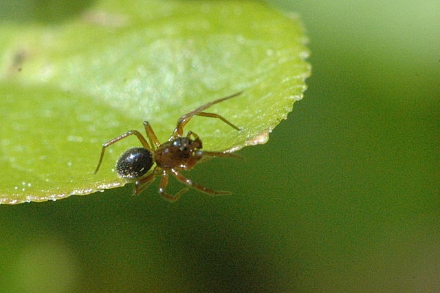 male Trematocephalus cristatus from Commanster, Belgian High Ardennes .